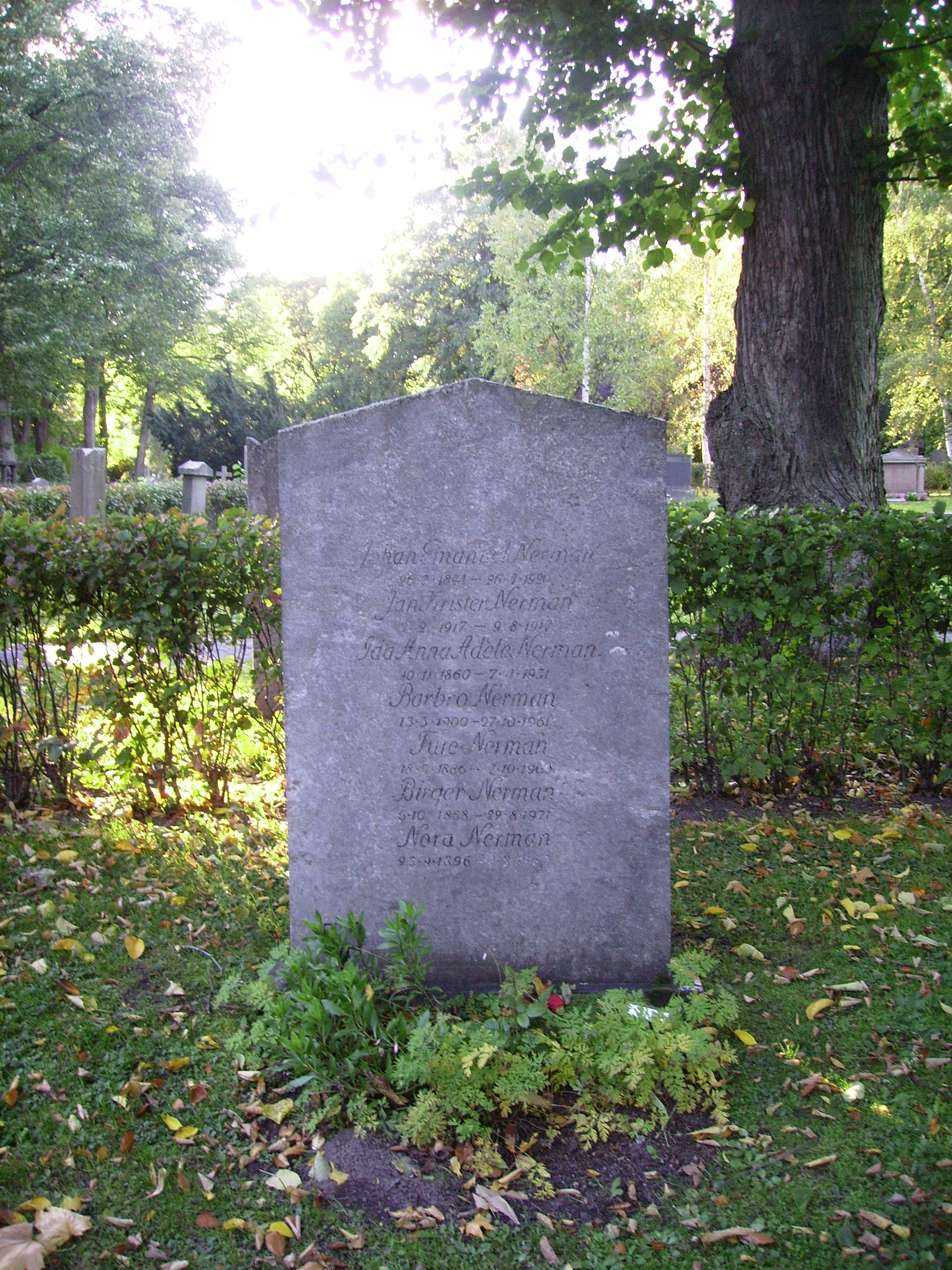 Picture of Ture and Birger Nerman's grave at Norra begravningsplatsen in Solna